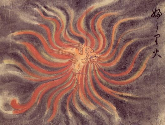 Furaribi (ふらり火, aimless flame) from the Hyakkai Zukan (百怪図巻)